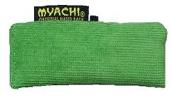 a green myachi original handsack